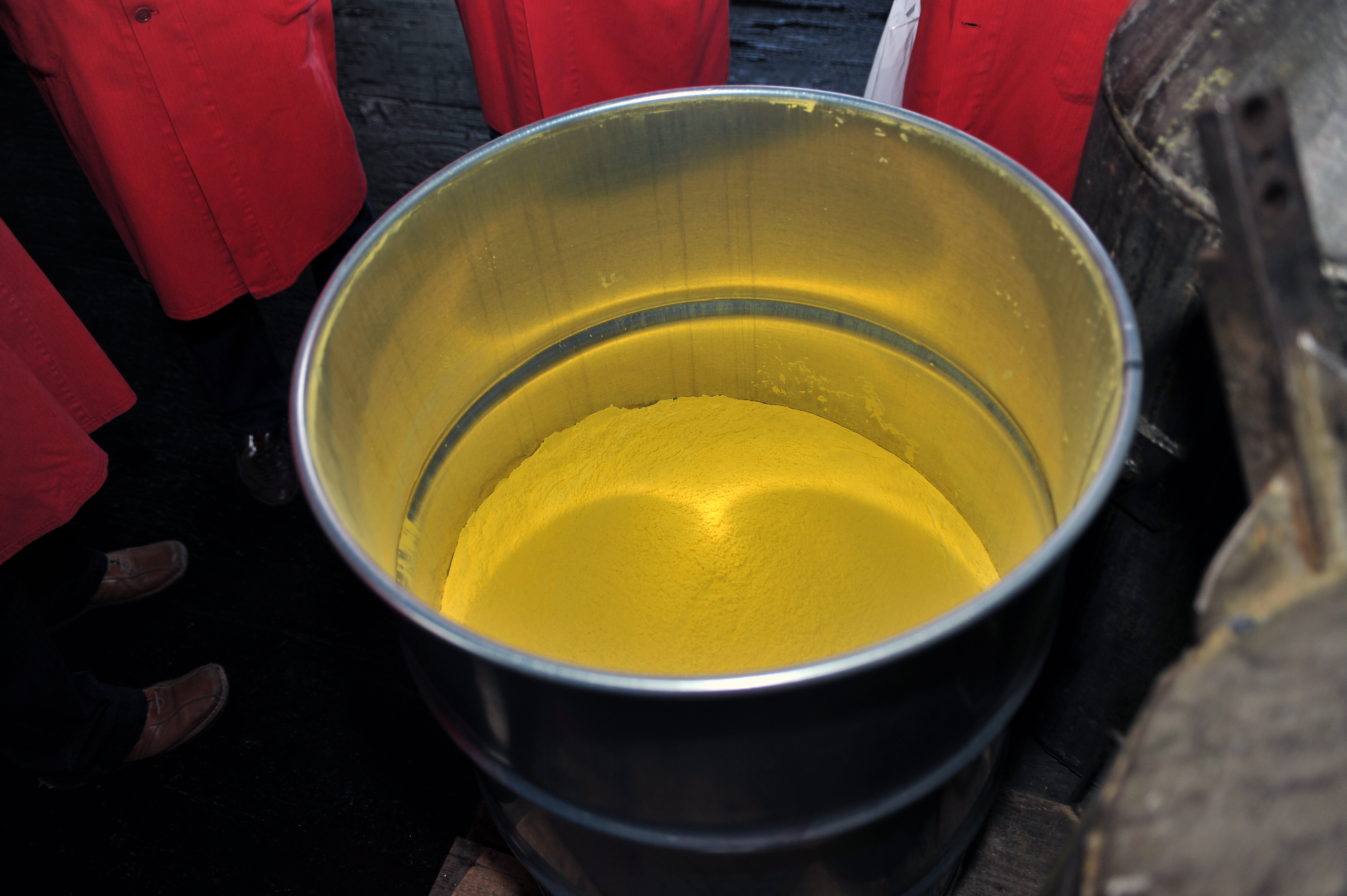 Uranium ore is processed into a concentrate known as yellowcake.